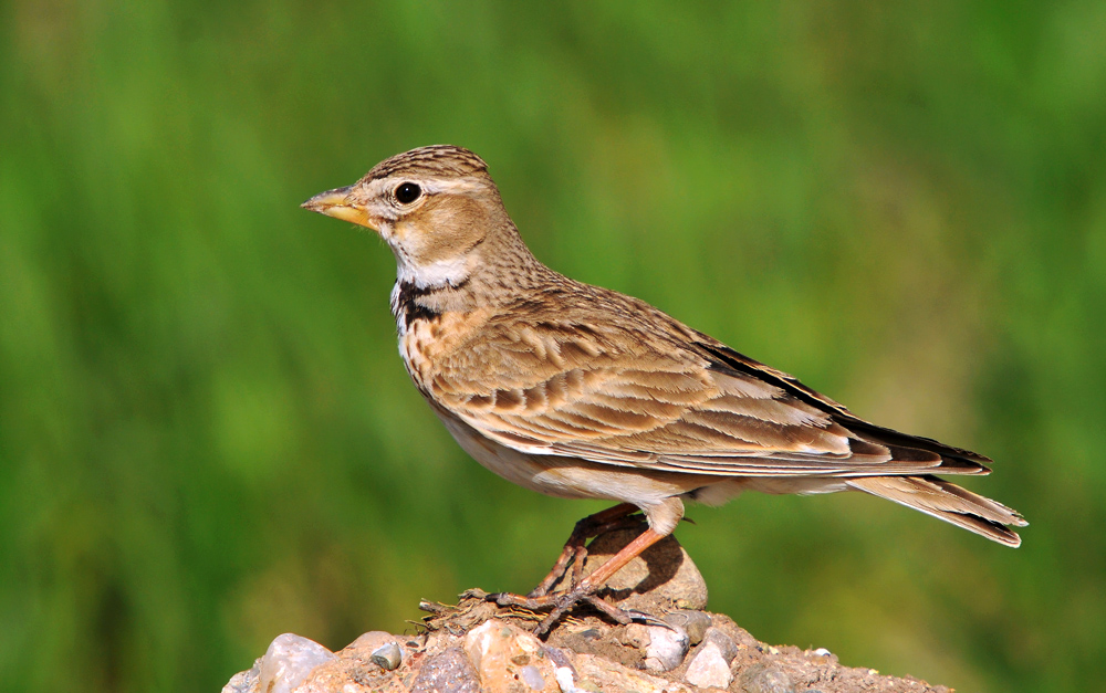 En:Calandra lark Kurdî: Bereşe